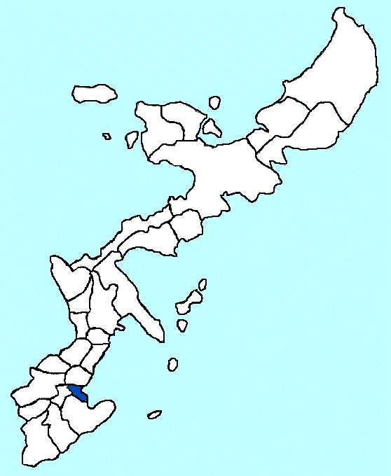 The location of Yonabaru Town in Okinawa.